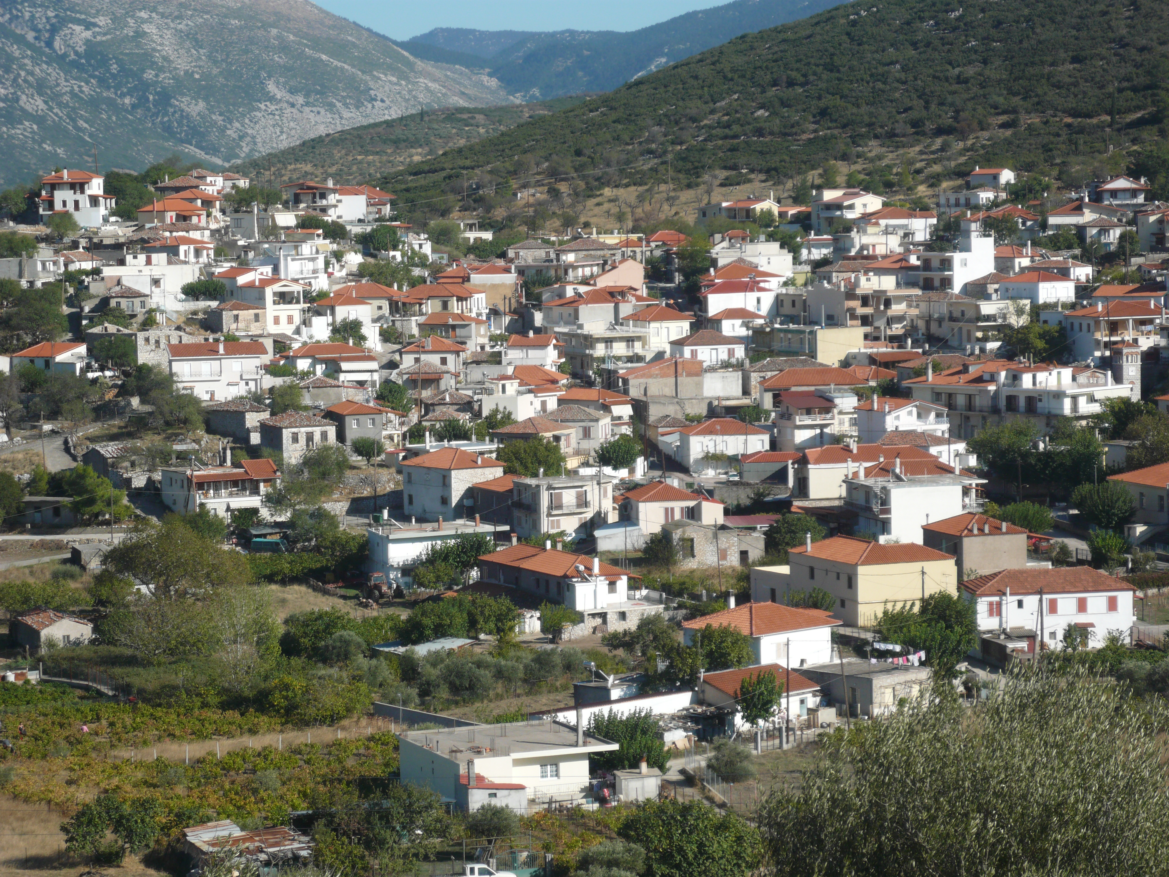 Steiri, greek village in Boeotia Prefecture